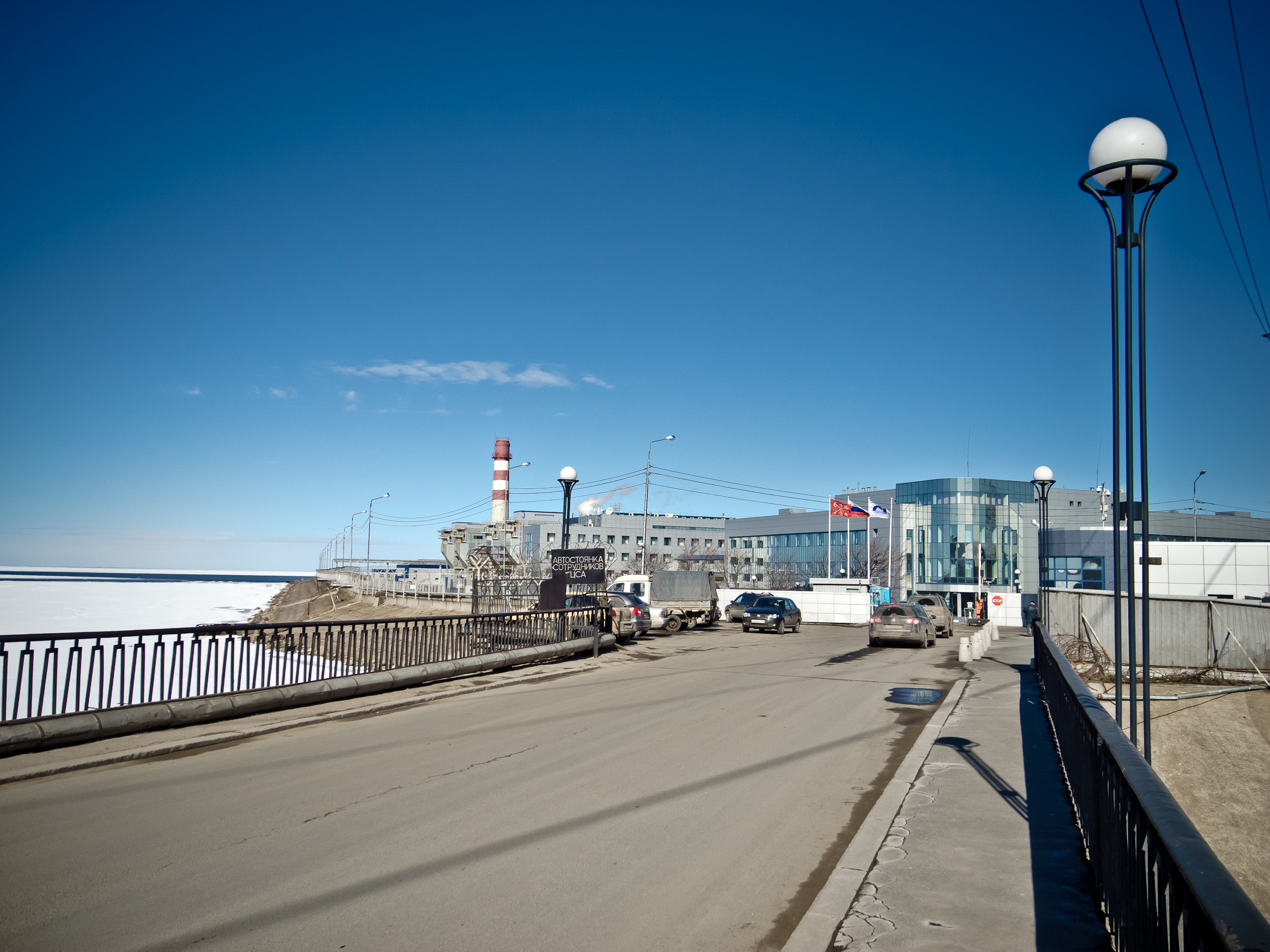 Beliy island, Saint Petersburg, Russia. Central waterwork station